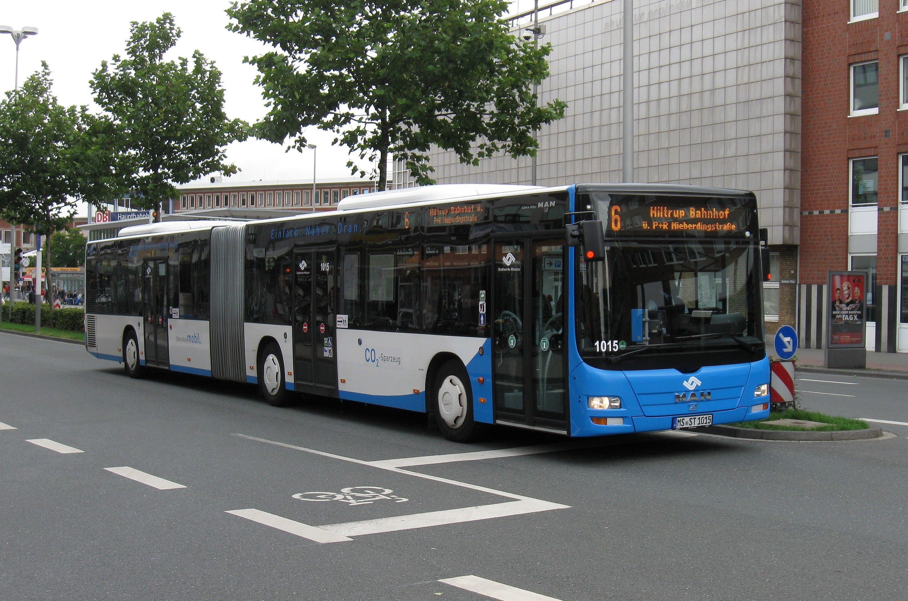 MAN NG 323 Lion's City G bus (#1015, reg. MS-ST-1015) in Münster, Germany. Built 2010, Stadtwerke Münster GmbH operator.